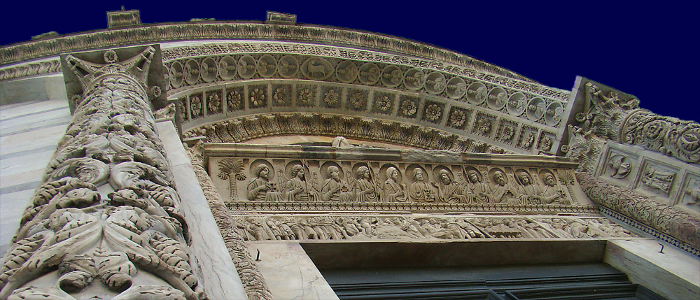 The Baptistery, Pisa, Tuscany, Italy. Pediment over the entrance.